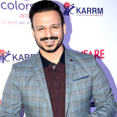 Vivek Oberoi at the media meet of ‘Filmfare Awards Marathi 2016